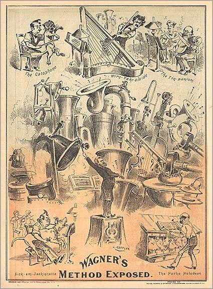 "Wagner's Method Exposed" Caricature depicts Richard Wagner and hypothesizes how his music might be made. Musicans at the top play the "Catophone" (a cat, played with a bow), "Wire-rake-oloide" (a harp played with a metal rake) and the "Tin-panium" (pans and large knives). In the center, Wagner conducts enormous instruments that dwarf the musicians who play them. At the bottom, a man squeezes a dog — the "Sick-em-Jackionette" — and a combination of a xylophone and pigs feeding from a trough constitute the "Porko Melodeon".